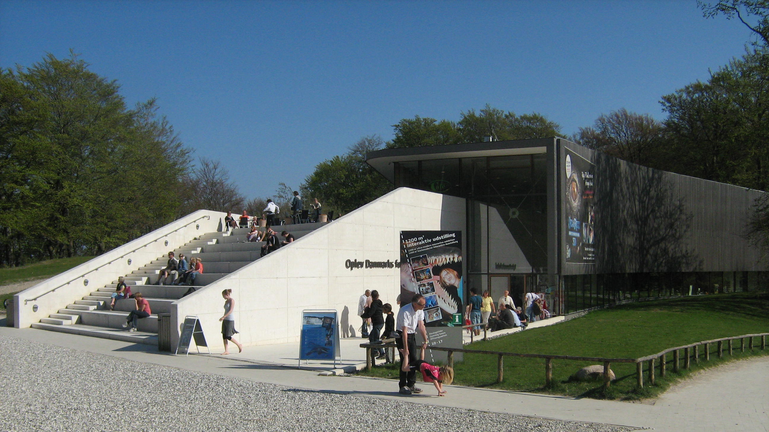 GeoCenter Møns Klint, a geological museum on the Danish island of Møn